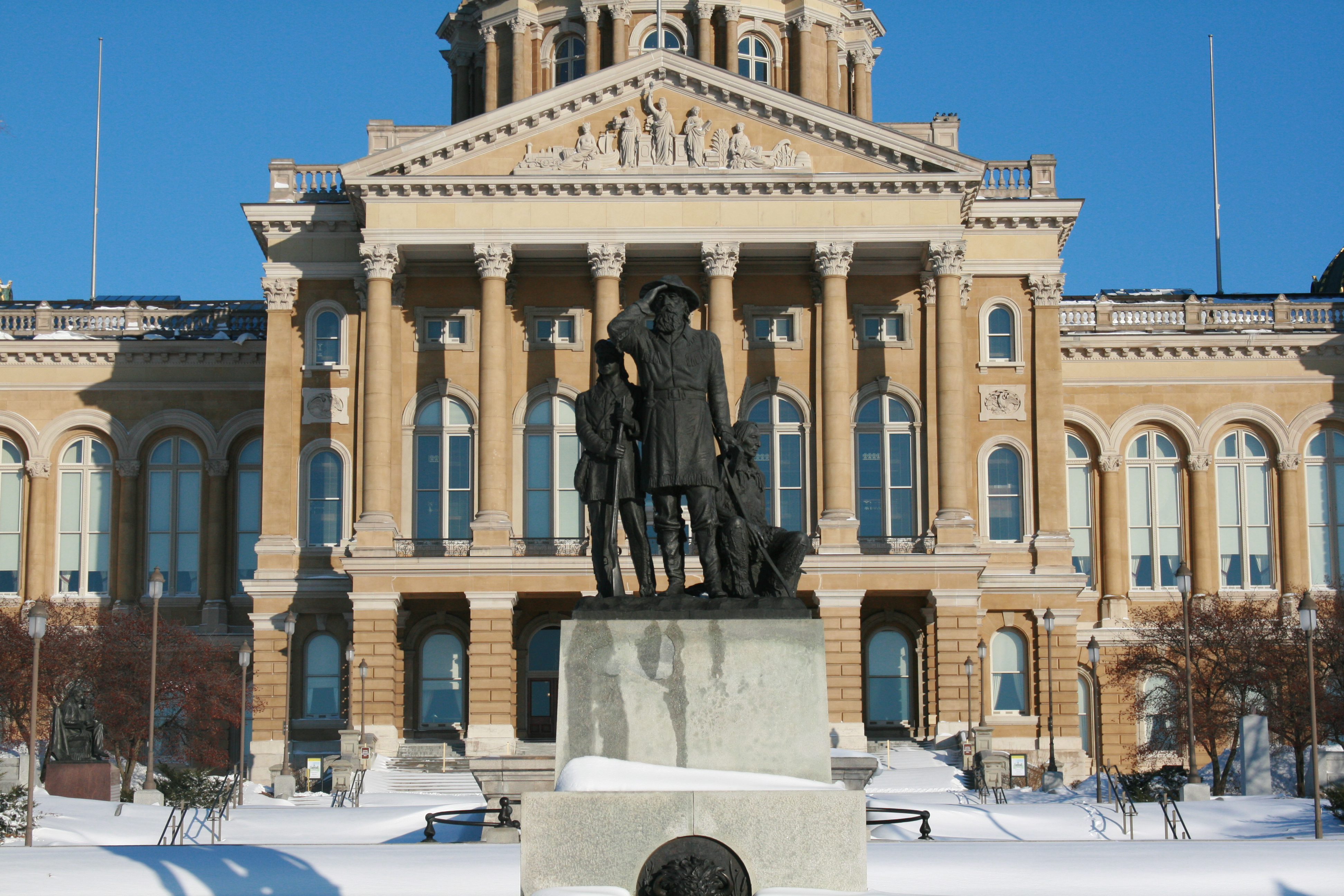 Close-up of the statue outside the State Capitol in Des Moines, Iowa